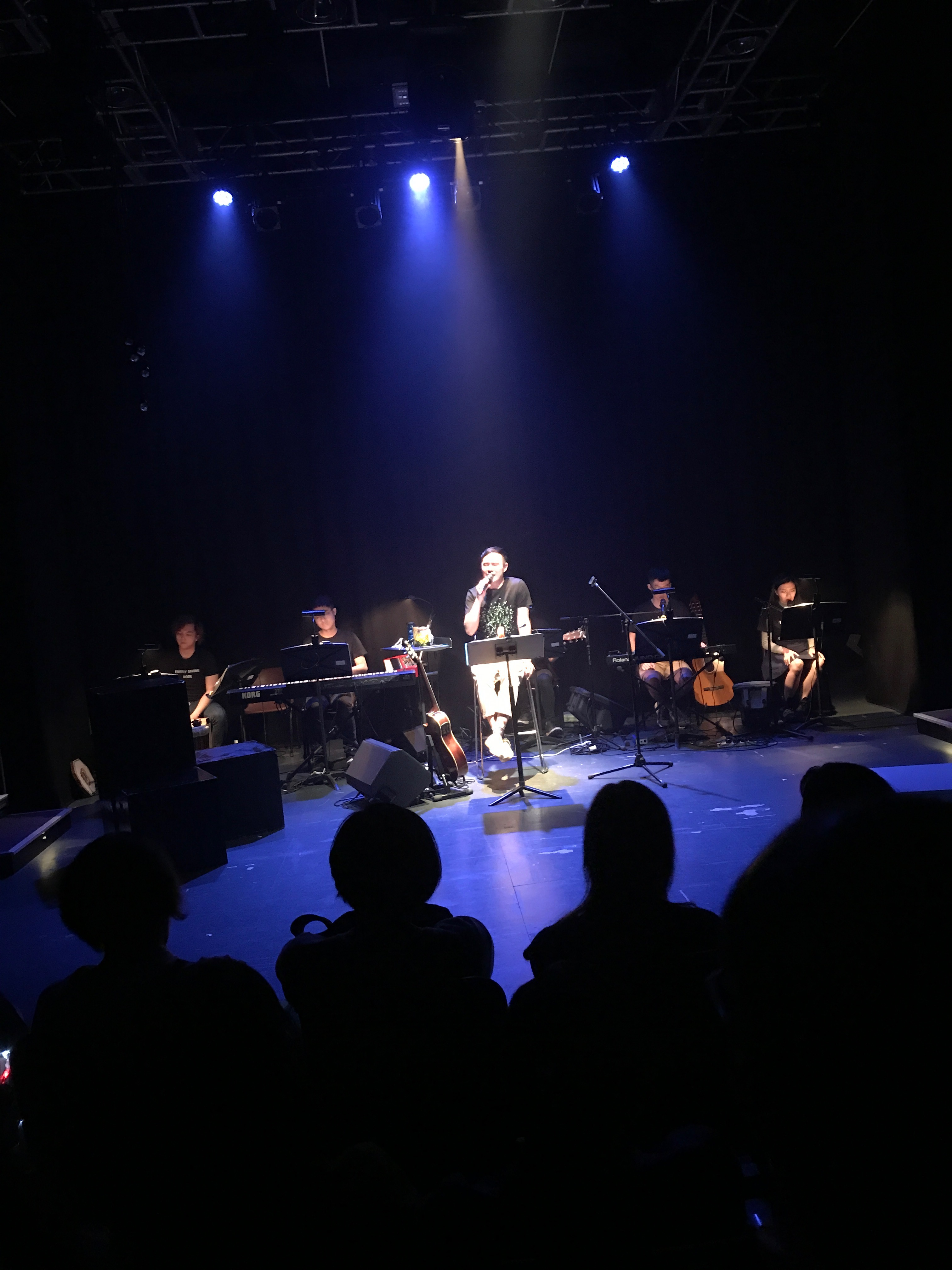 Wong Ka Wai's concert in 2017